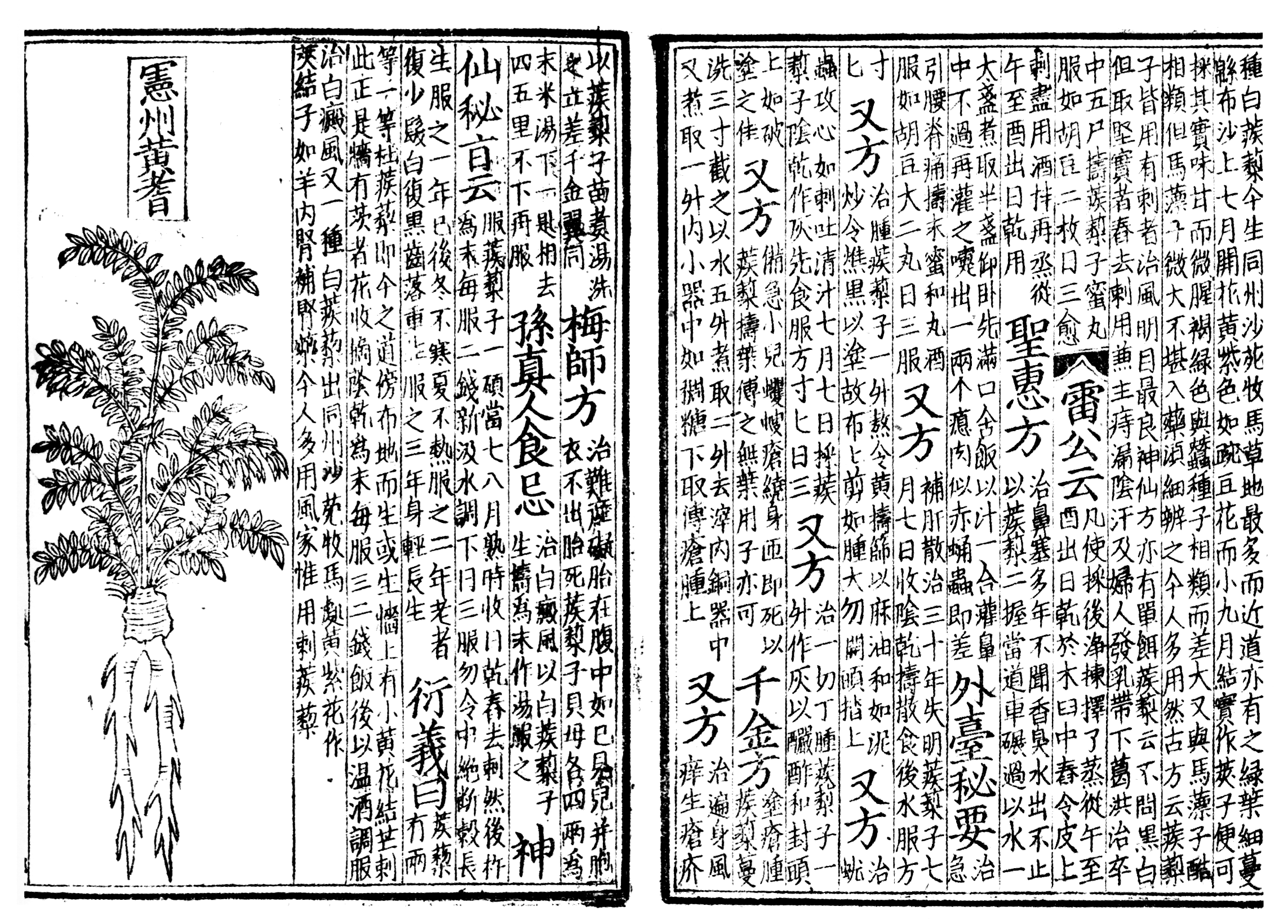 The Pen ts'ao, 1249 C.E. Printed with woodblock, this illustrated book discusses Chinese herbal medicine.